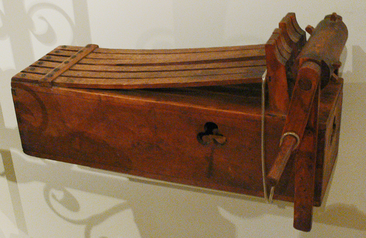 Rattle, used on Good Friday instead of churchbells. Landesmuseum Württemberg (location: Museum für Volkskultur Waldenbuch). E. 4, Inv. no. 10229.